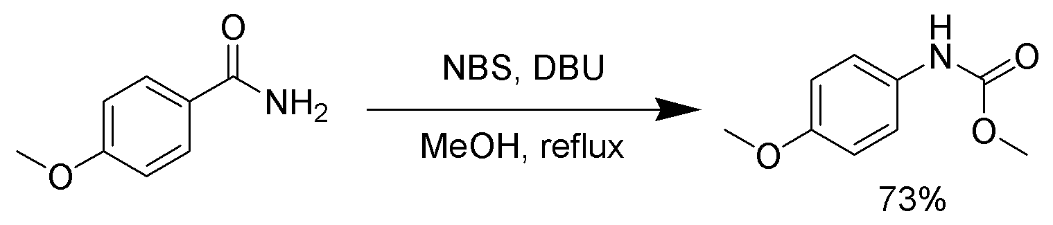 Description: The reaction of N-Bromosuccinimide with a primary amide gives a Hoffmann rearrangement. Author, date of creation: selfmade by ~K, 08 January 2006. Source: - Copyright: Public domain. (PD) Comments: high-resolution b/w PNG; ChemDraw / The GIMP.